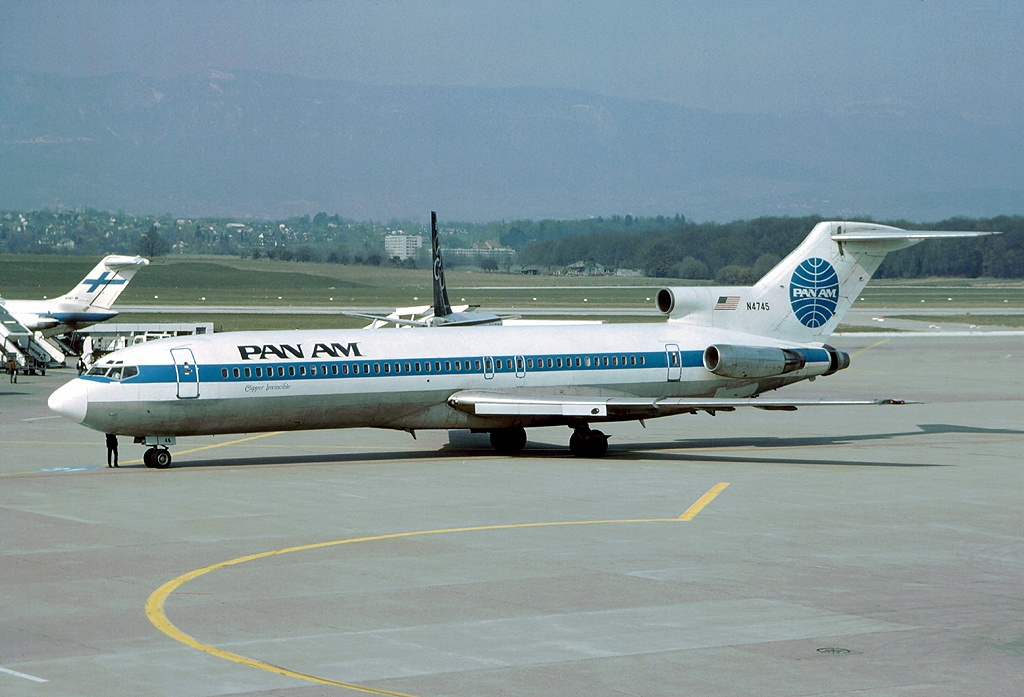 "Clipper Invincible"